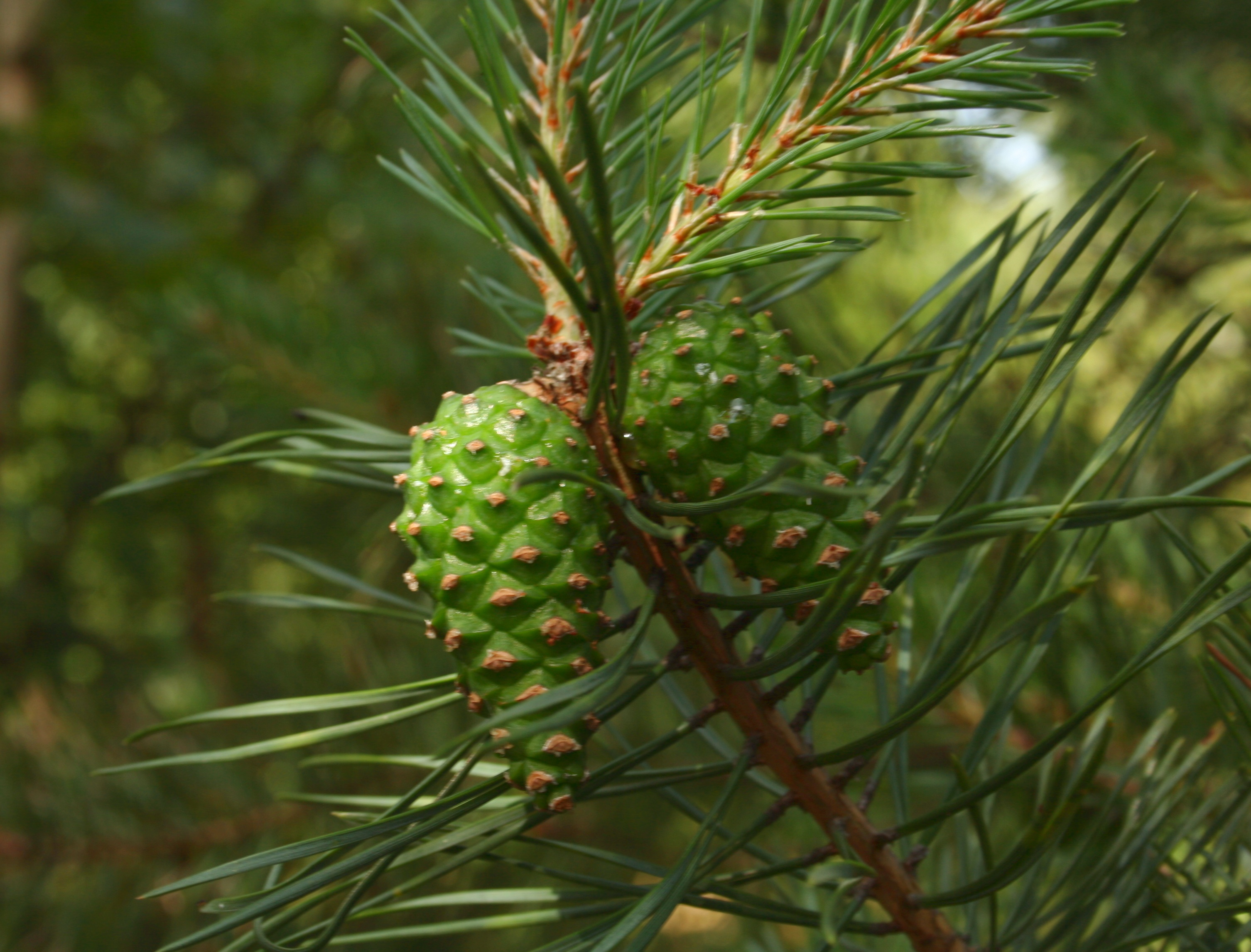 The Scots Pine - cones (Pinus sylvestris), near Boronów, Poland